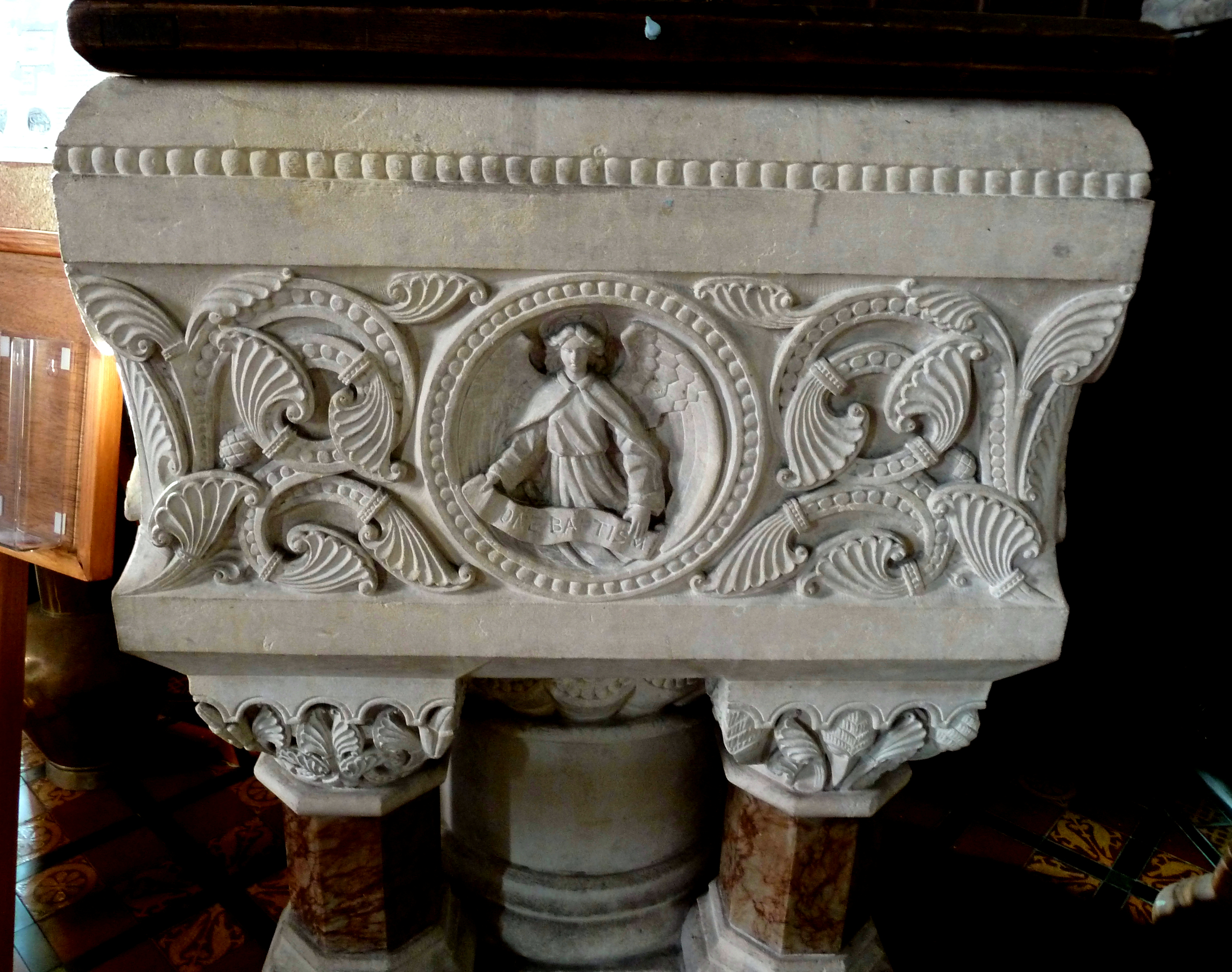 The sculpture at St Michael and All Angels, Barton-le-Street, Yorkshire, England. Built 1869-1871 to the design of William Perkin. Listed building, grade II*. Over 300 pieces of medieval sculpture from a previous church were incorporated, and further architectural sculpture was added by Charles Mawer of Leeds.